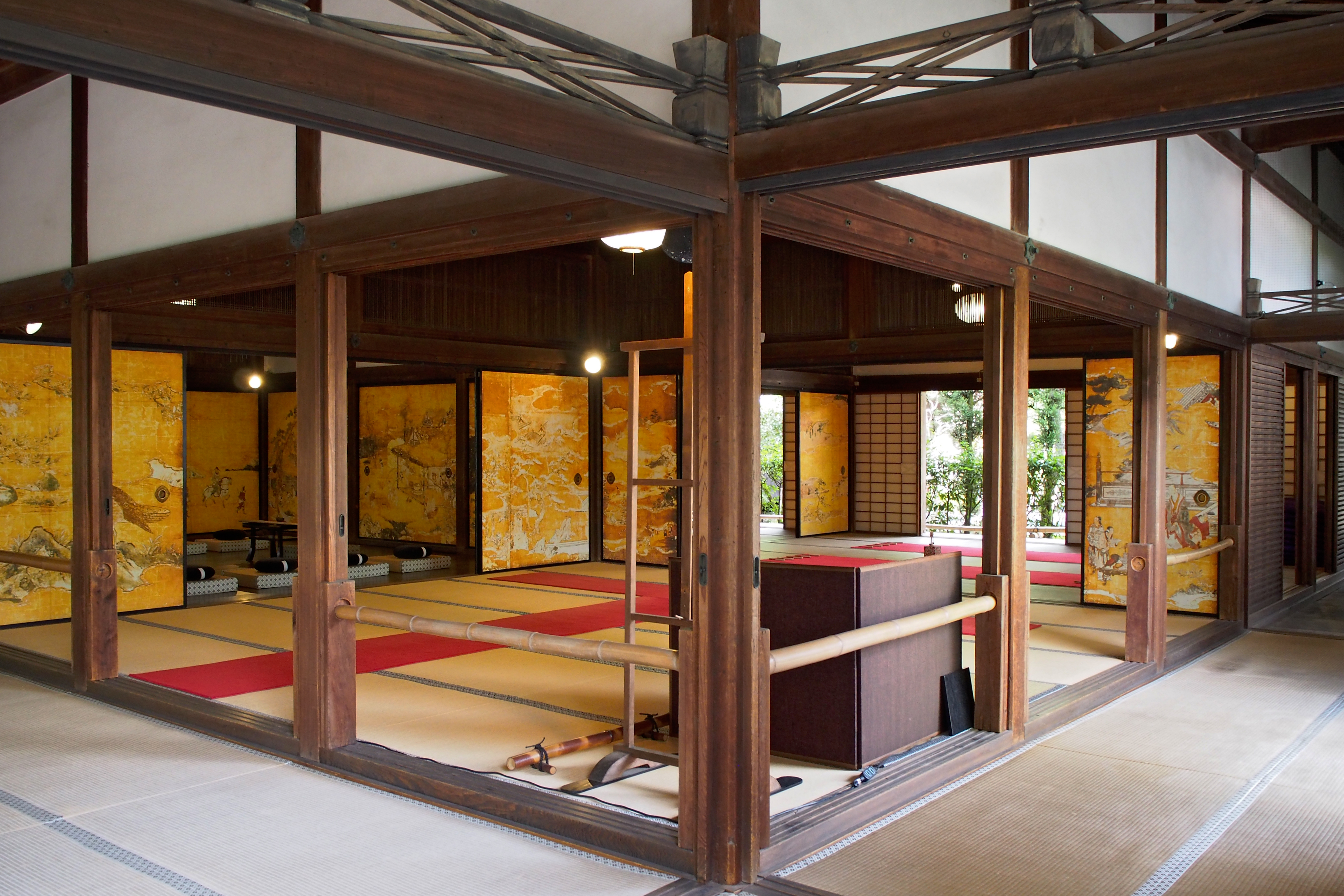 Enman-in in Otsu, Shiga prefecture, Japan